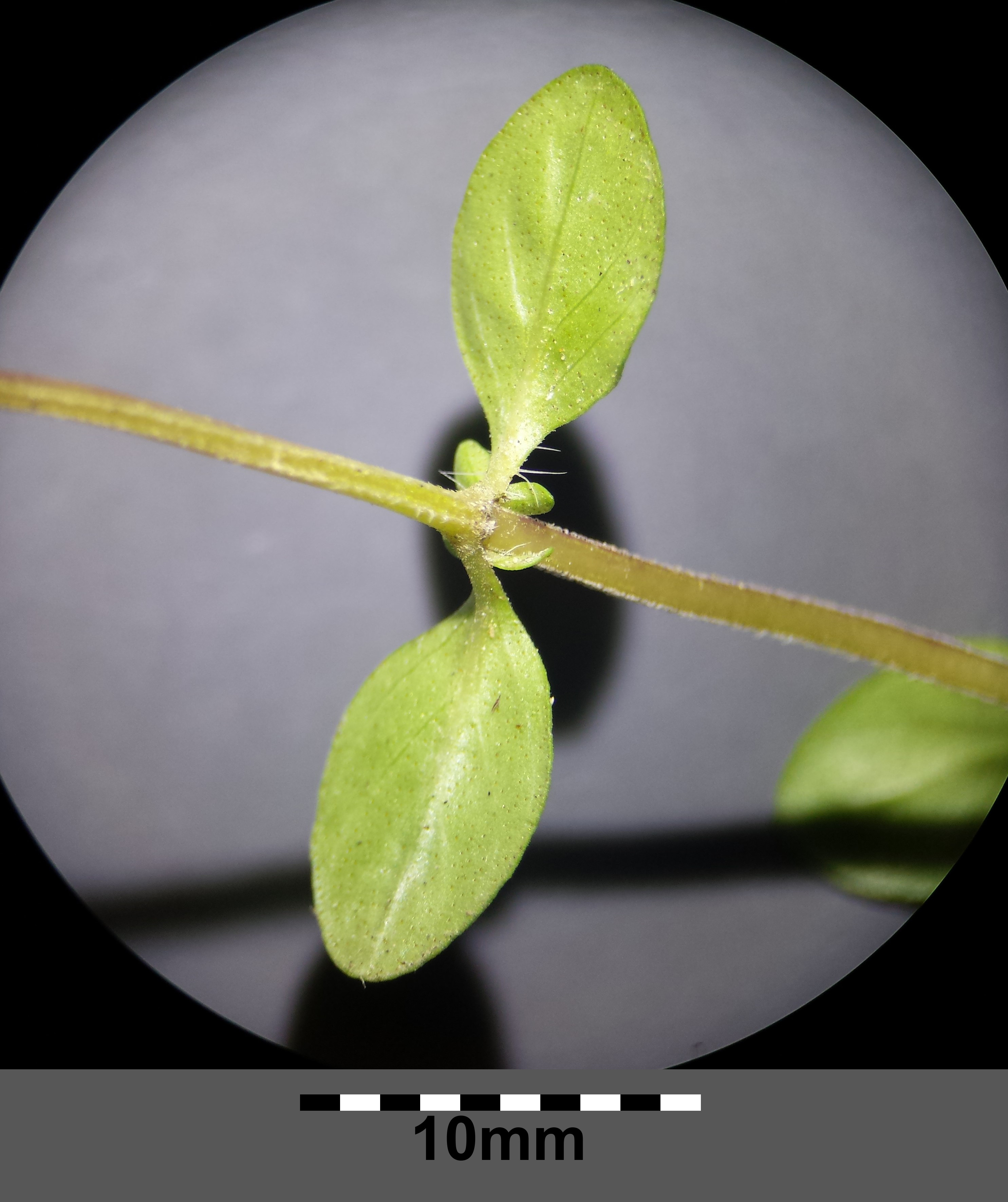 Stipe with leaves ciliate at base (☿ individual) Taxonym: Thymus pulegioides subsp. pulegioides ss Fischer et al. EfÖLS 2008 ISBN 978-3-85474-187-9 Location: next to Griesbach, Groß-Gerungs, district Zwettl, Lower Austria - ca. 800 m a.s.l. Habitat: wayside/slope